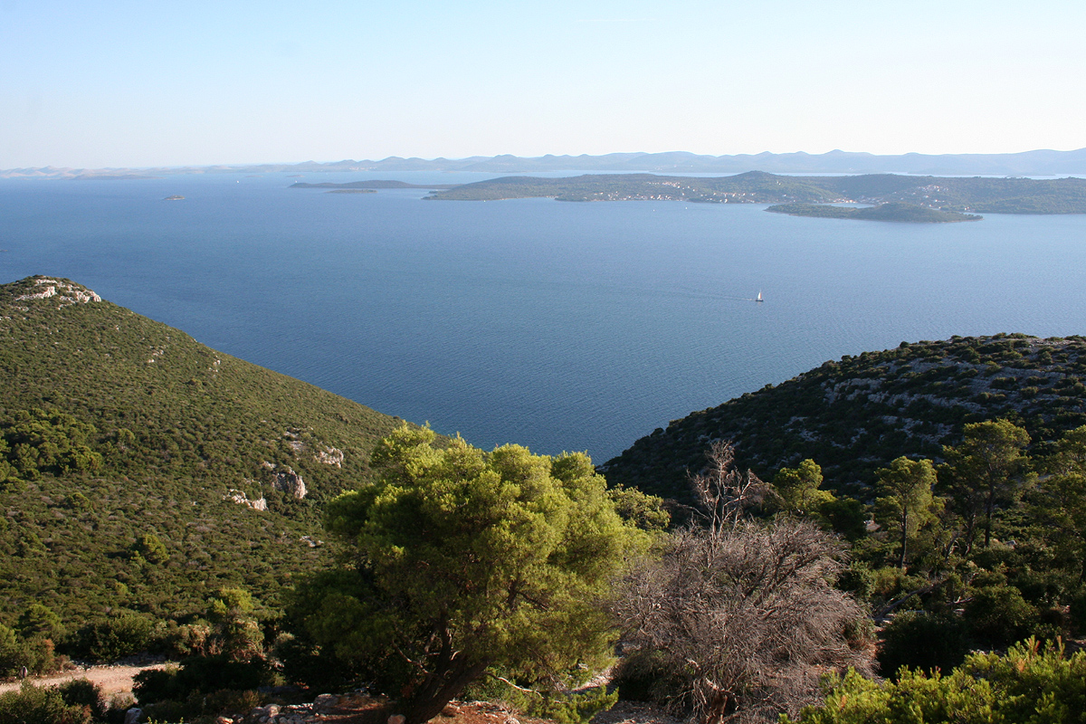 Ugljan, from st Mihovil. Iž is in the background.